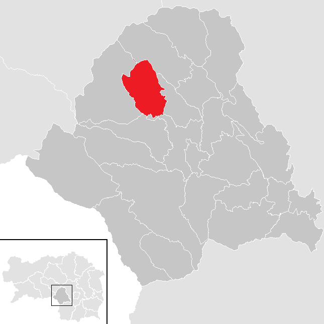 district Voitsberg